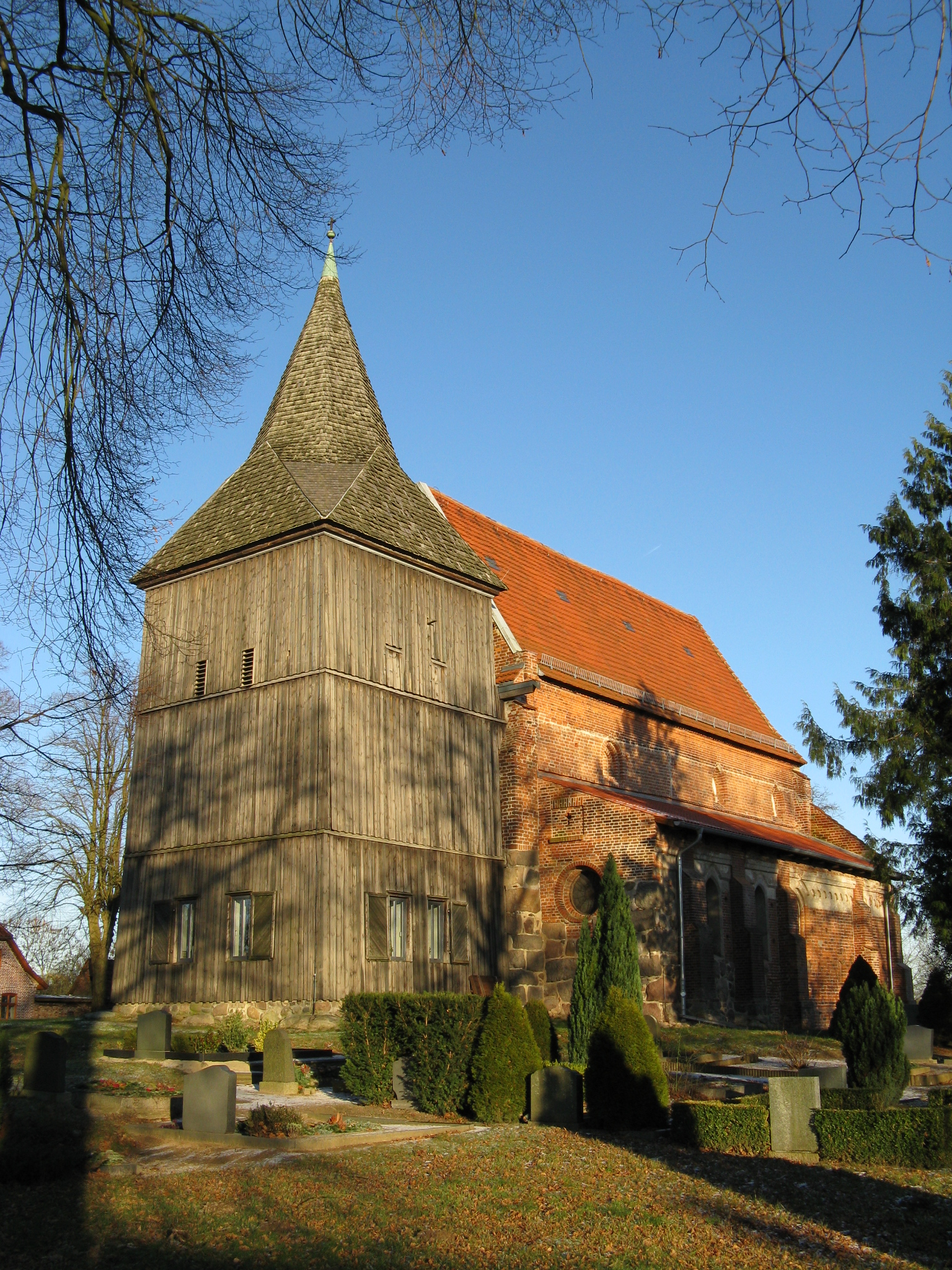 Church in Groß Salitz, district Nordwestmecklenburg, Mecklenburg-Vorpommern, Germany